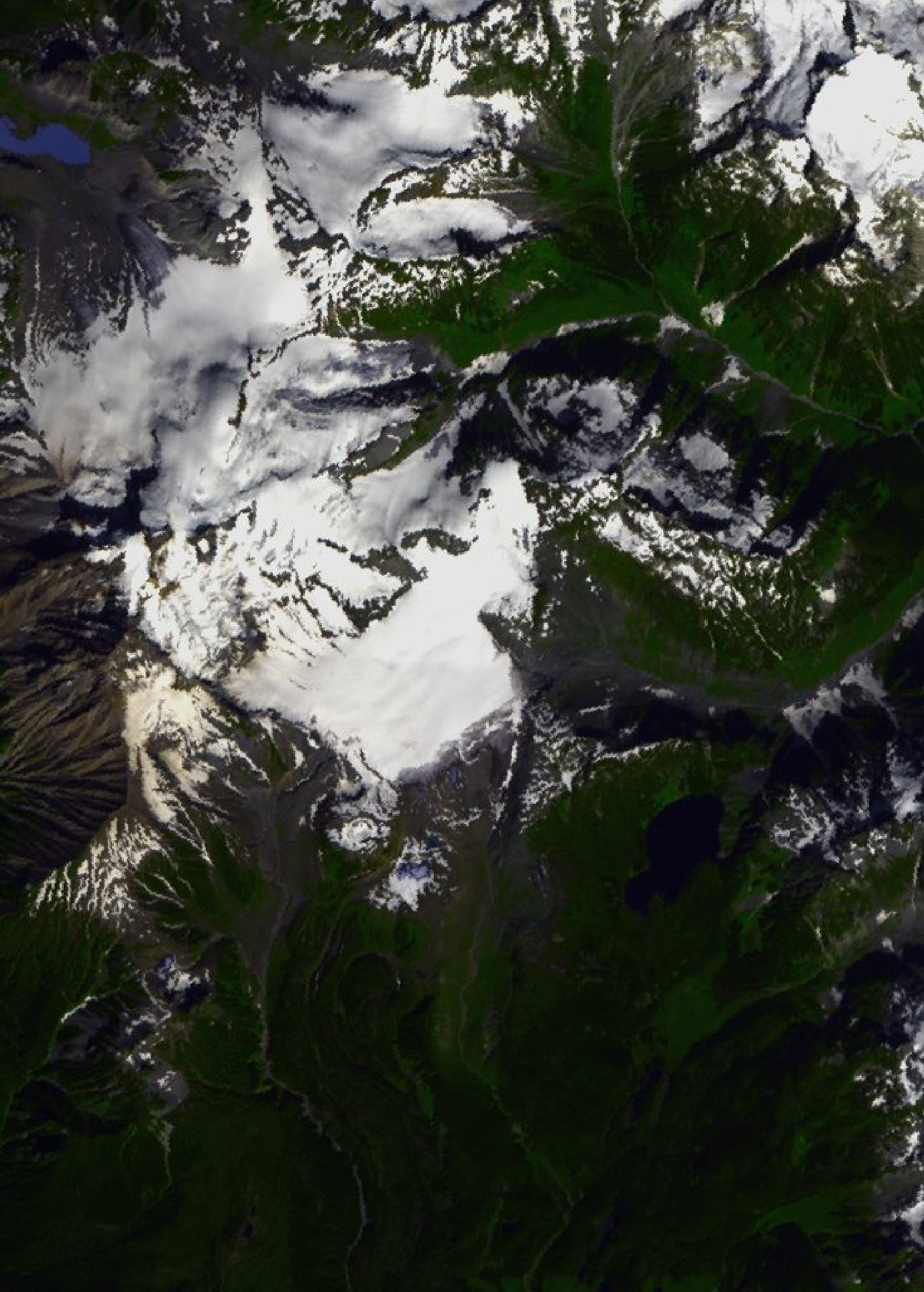 Satellite image of mount Garibaldi. Projection : projection de Mercator simplifiée / Simple Mercator ; système géodésique WGS84